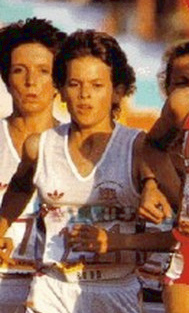 Left-right: Zola Budd, Mary Decker, Maricica Puică, 3000 m, 1984 Olympics